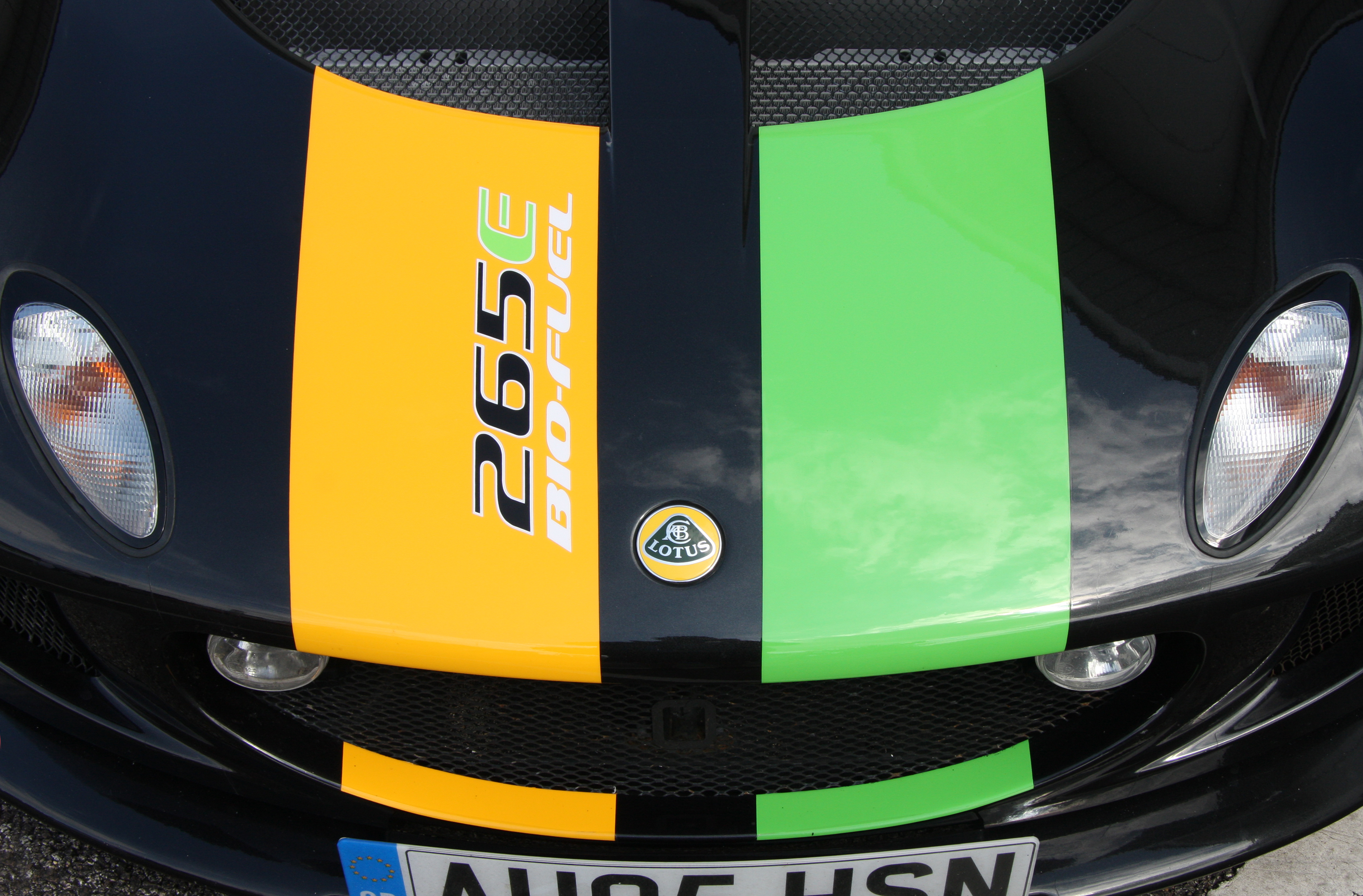 Lotus Exige 265E Bio-Fuel at the Lotus 60th Celebration